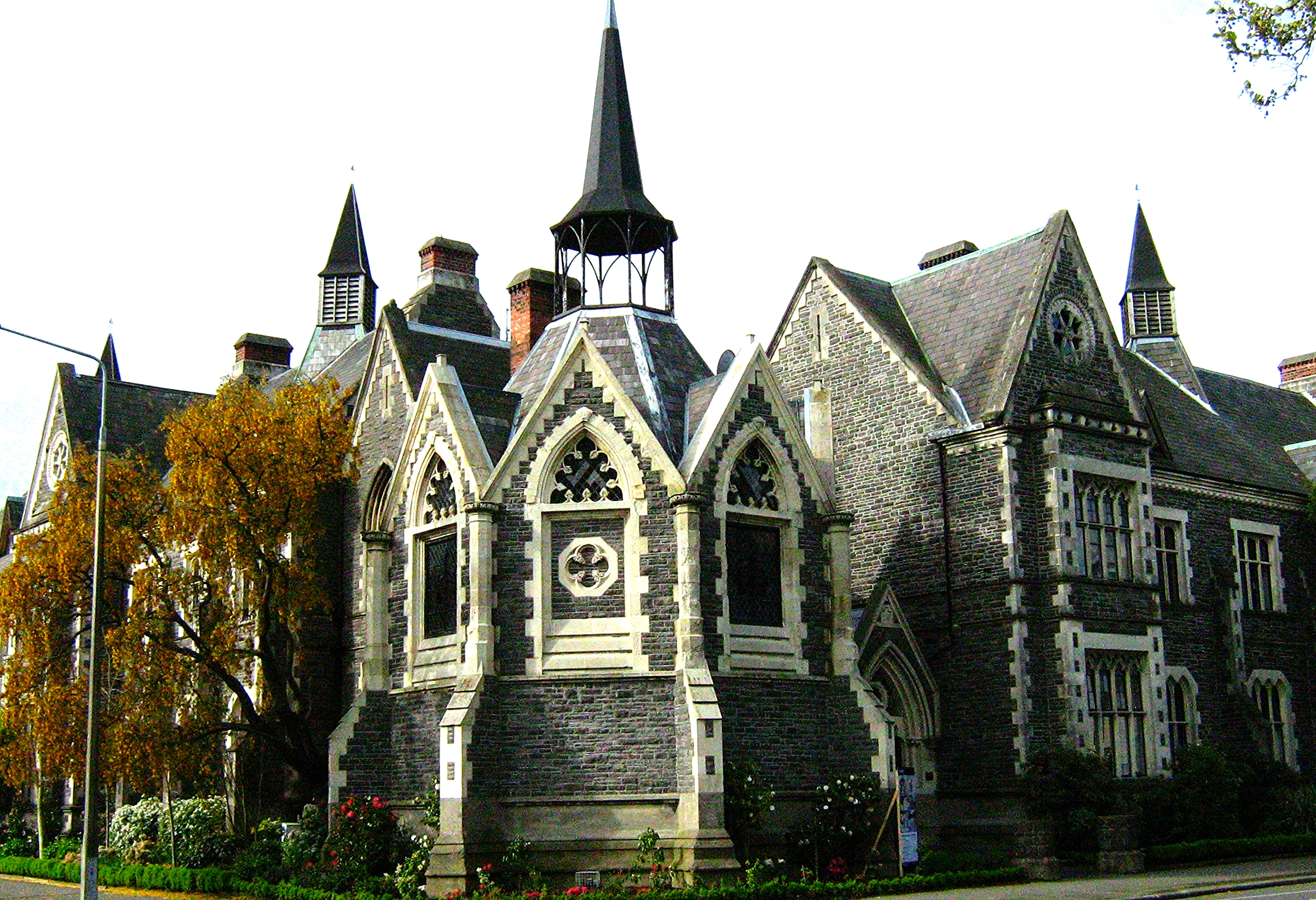 Built in 1876 in Gothic Revival style, the former Normal School provided primary education, and later became the first teachers' training college. It was converted to apartments in the 1980s.